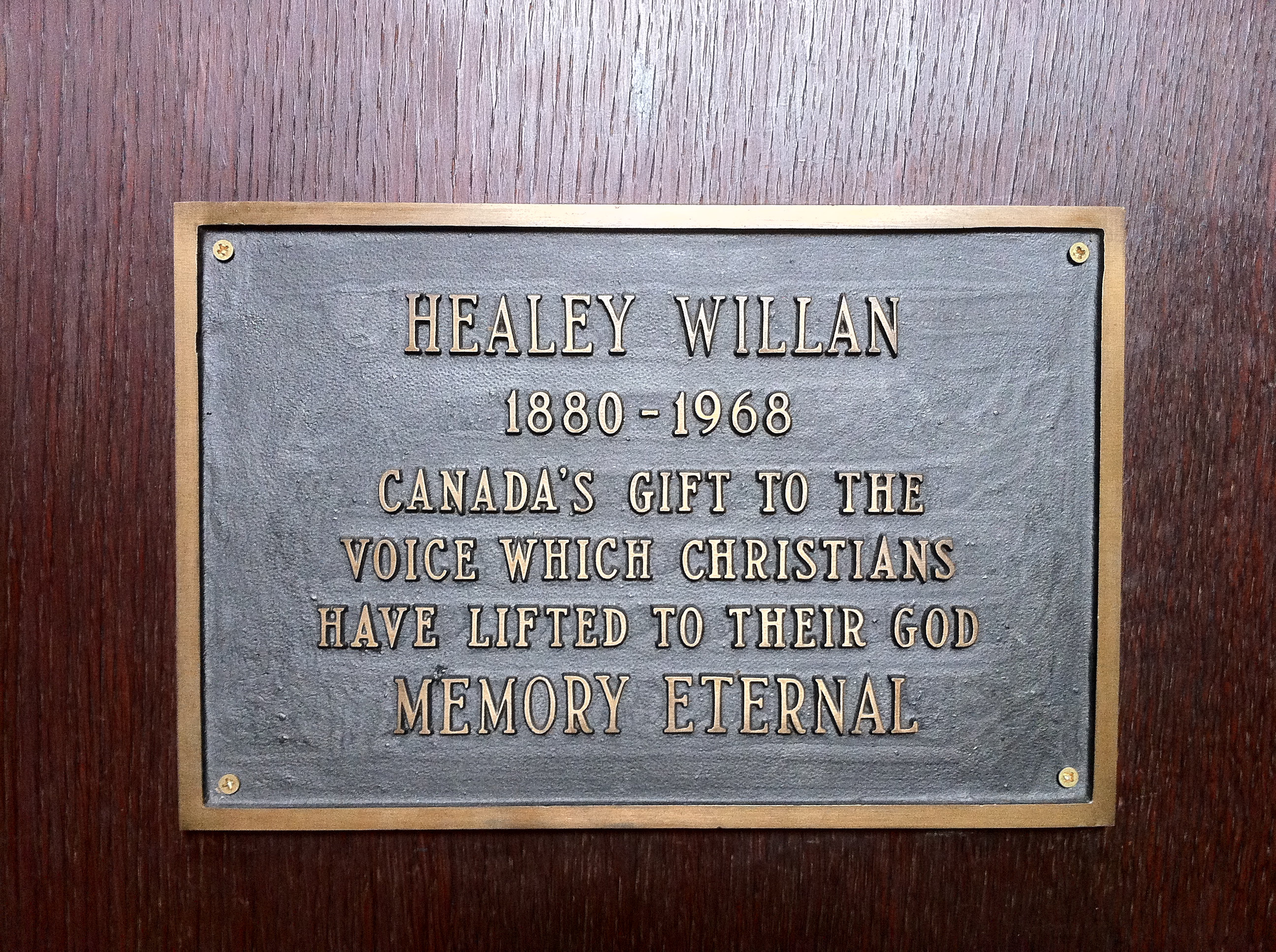 Memorial to Healey Willan in the Cathedral of Saint John the Divine, New York